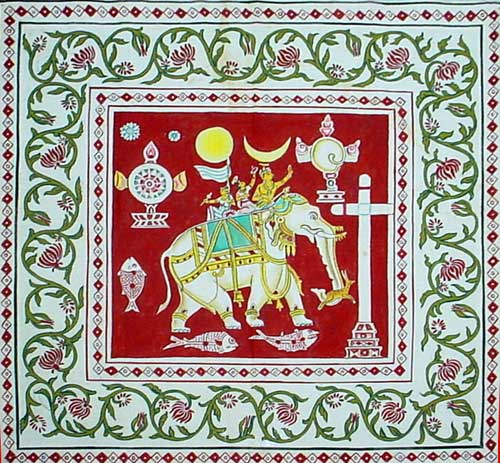 Catholic Karava flag of Sri Lanka. Features a white elephant, a cross, sun, moon and fishes.